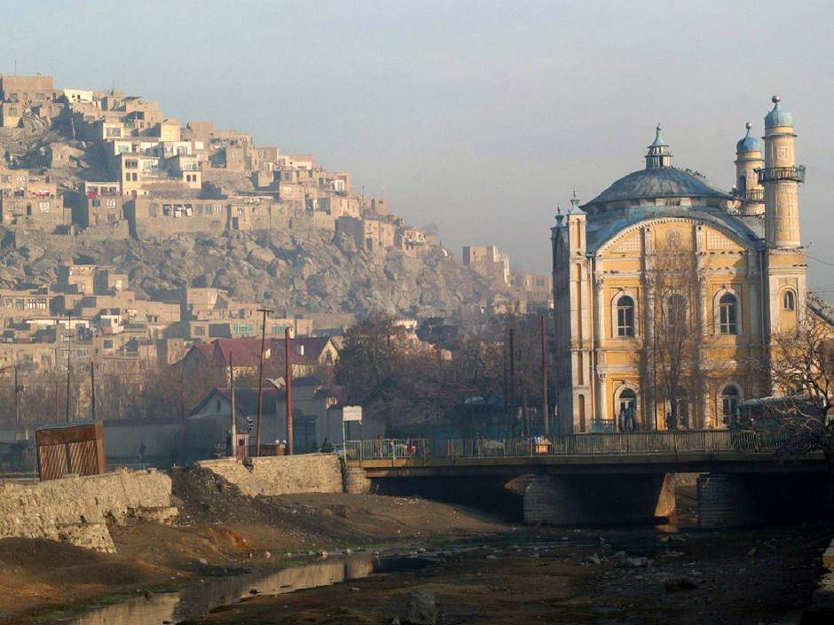 Landscape of Afghanistan